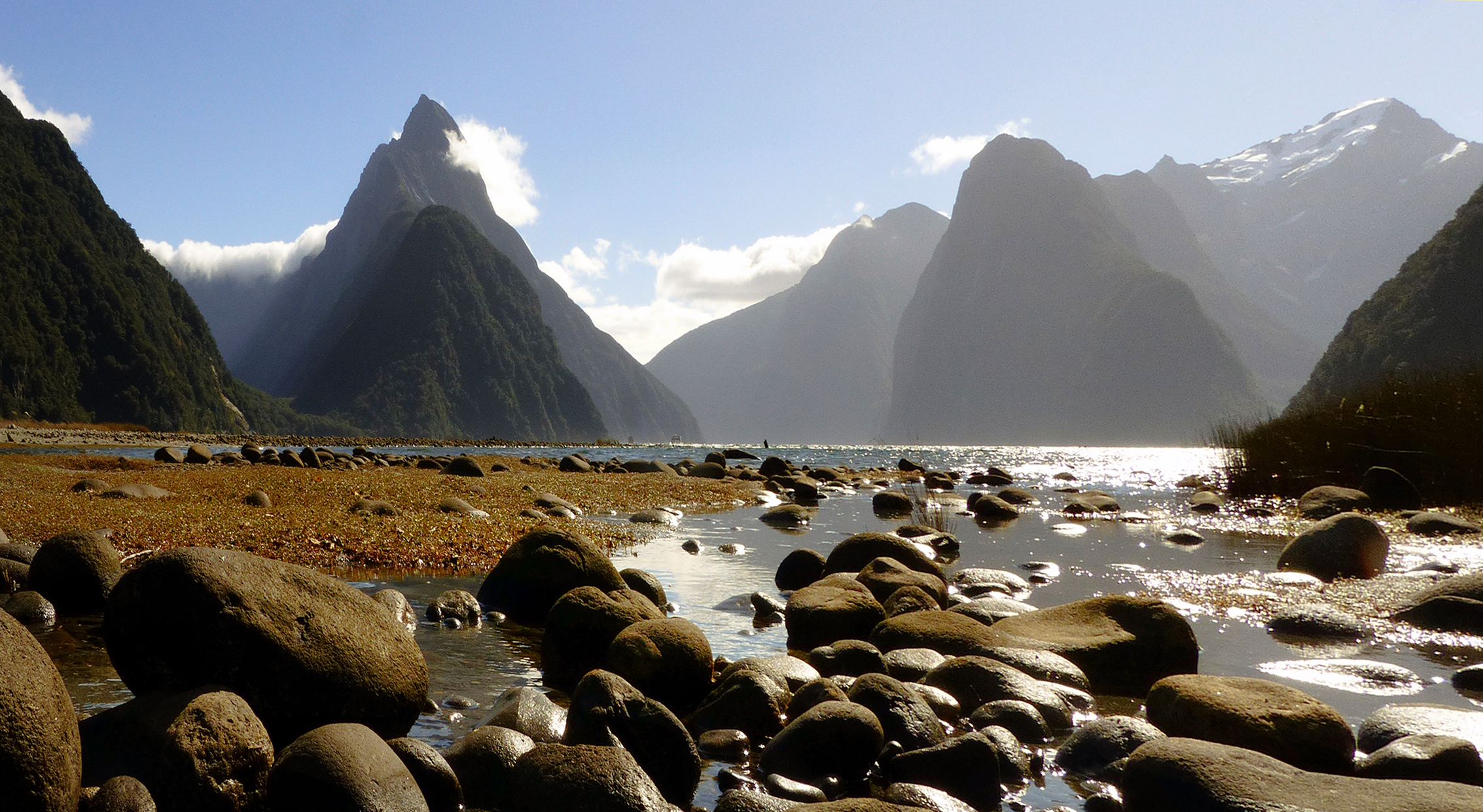 Milford Sound (Māori: Piopiotahi) is a fiord in the south west of New Zealand's South Island, within Fiordland National Park, Piopiotahi (Milford Sound) Marine Reserve, and the Te Wahipounamu World Heritage site. It has been judged the world's top travel destination in an international survey (the 2008 Travelers' Choice Destinations Awards by TripAdvisor) and is acclaimed as New Zealand's most famous tourist destination. Rudyard Kipling had previously called it the eighth Wonder of the World. Milford Sound is incorrectly named, as a sound is in fact a large sea or ocean inlet larger than a bay, deeper than a bight, and wider than a fjord, while Milford Sound is formed by the actions of glaciers.